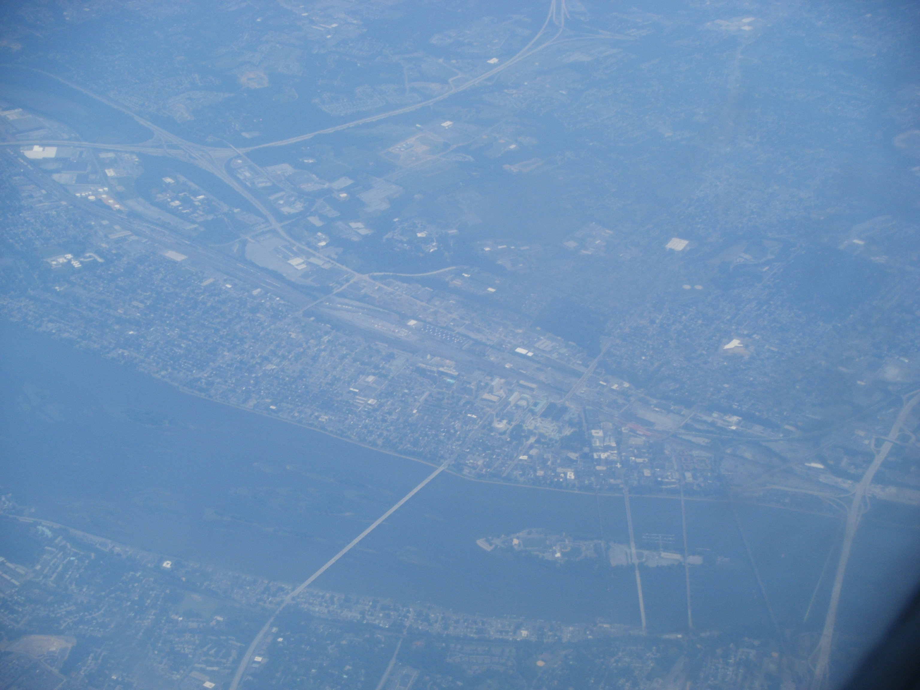 A view of Harrisburg, Pennsylvania taken from an airplane. The Susquehanna River can be seen in the foreground.